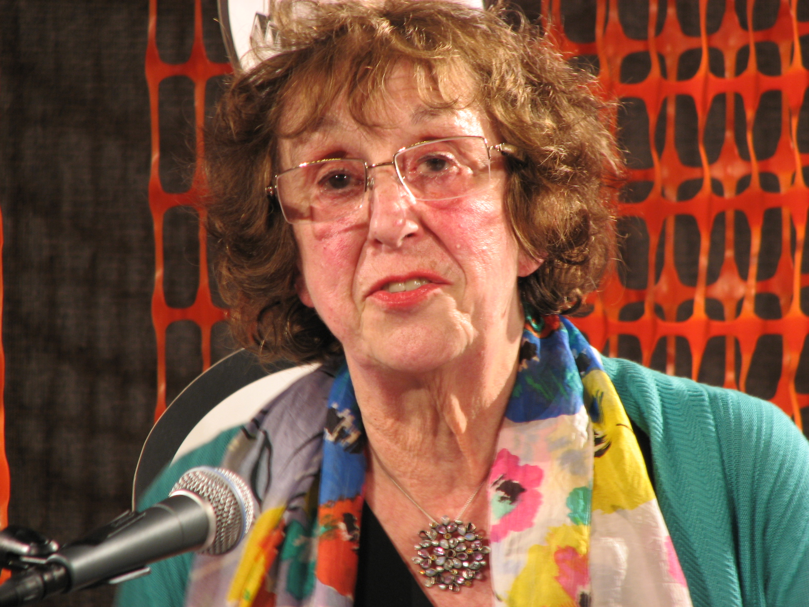 Elaine Feinstein performing in Tallinn literature festival HeadRead